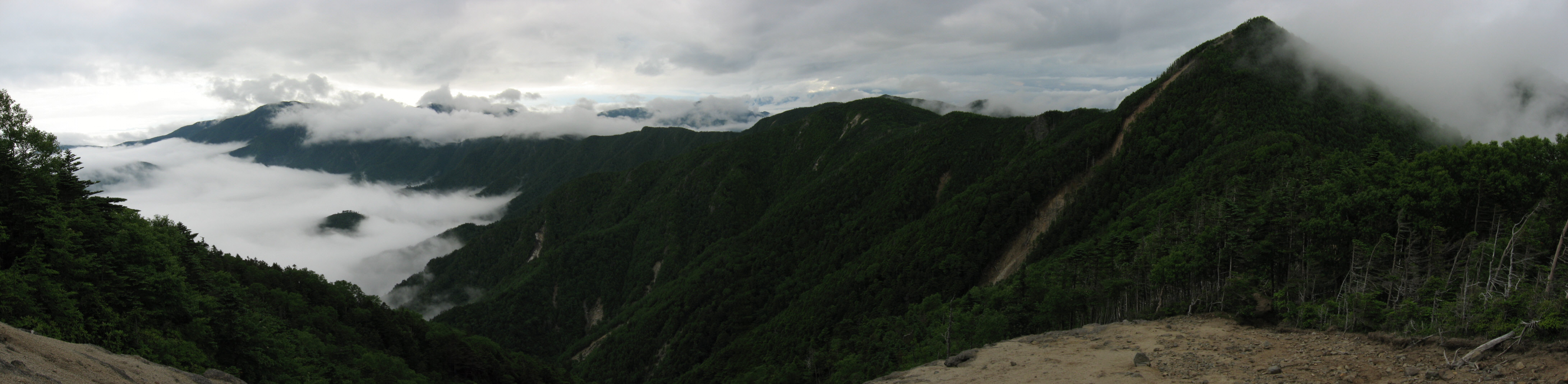 View from Mount Tokusa in the Okuchichibu Mountains, Japan